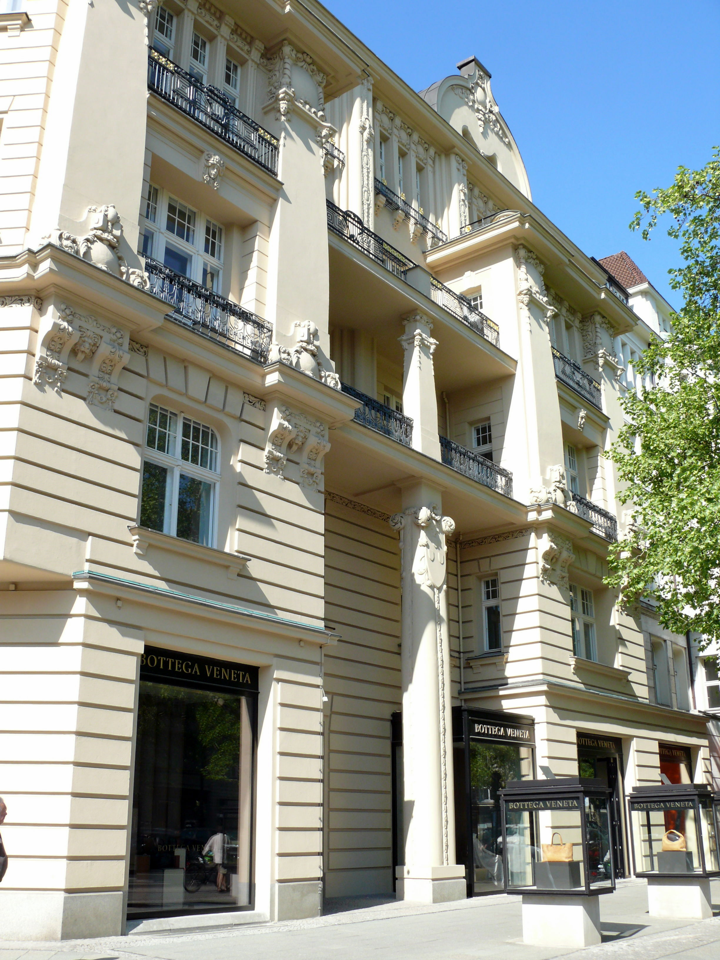 Berlin-Charlottenburg Kurfürstendamm 59, Bottega Veneta